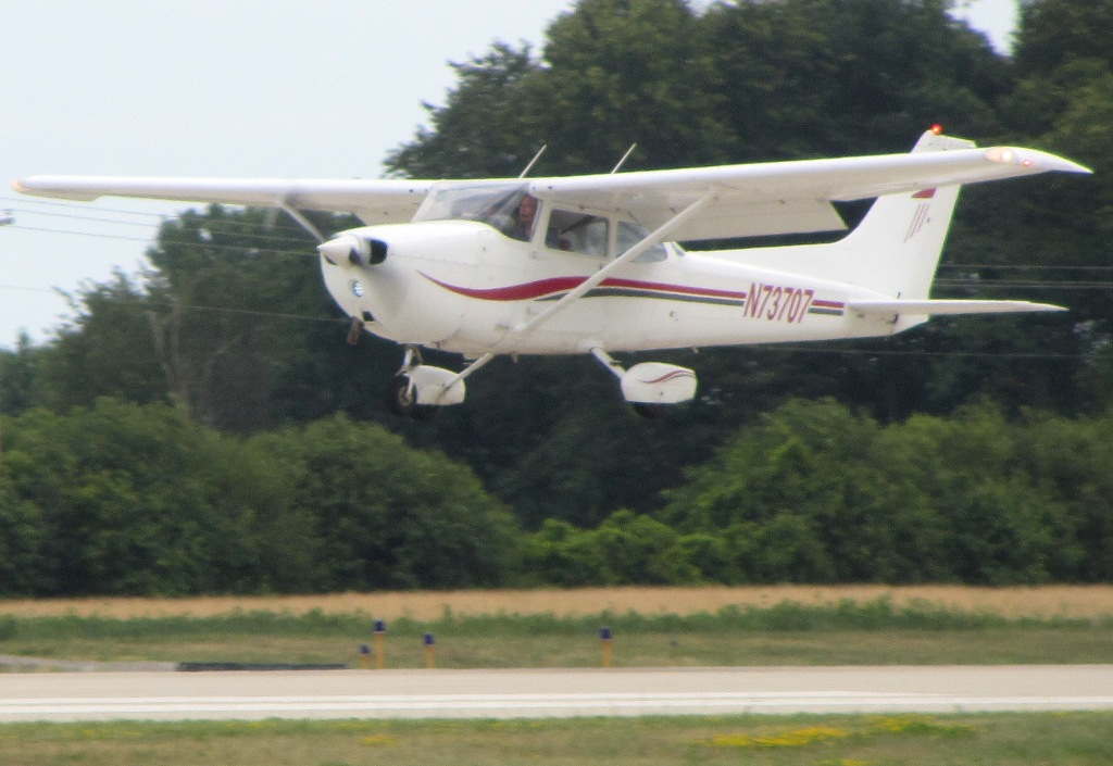 1976 Cessna 172N Skyhawk